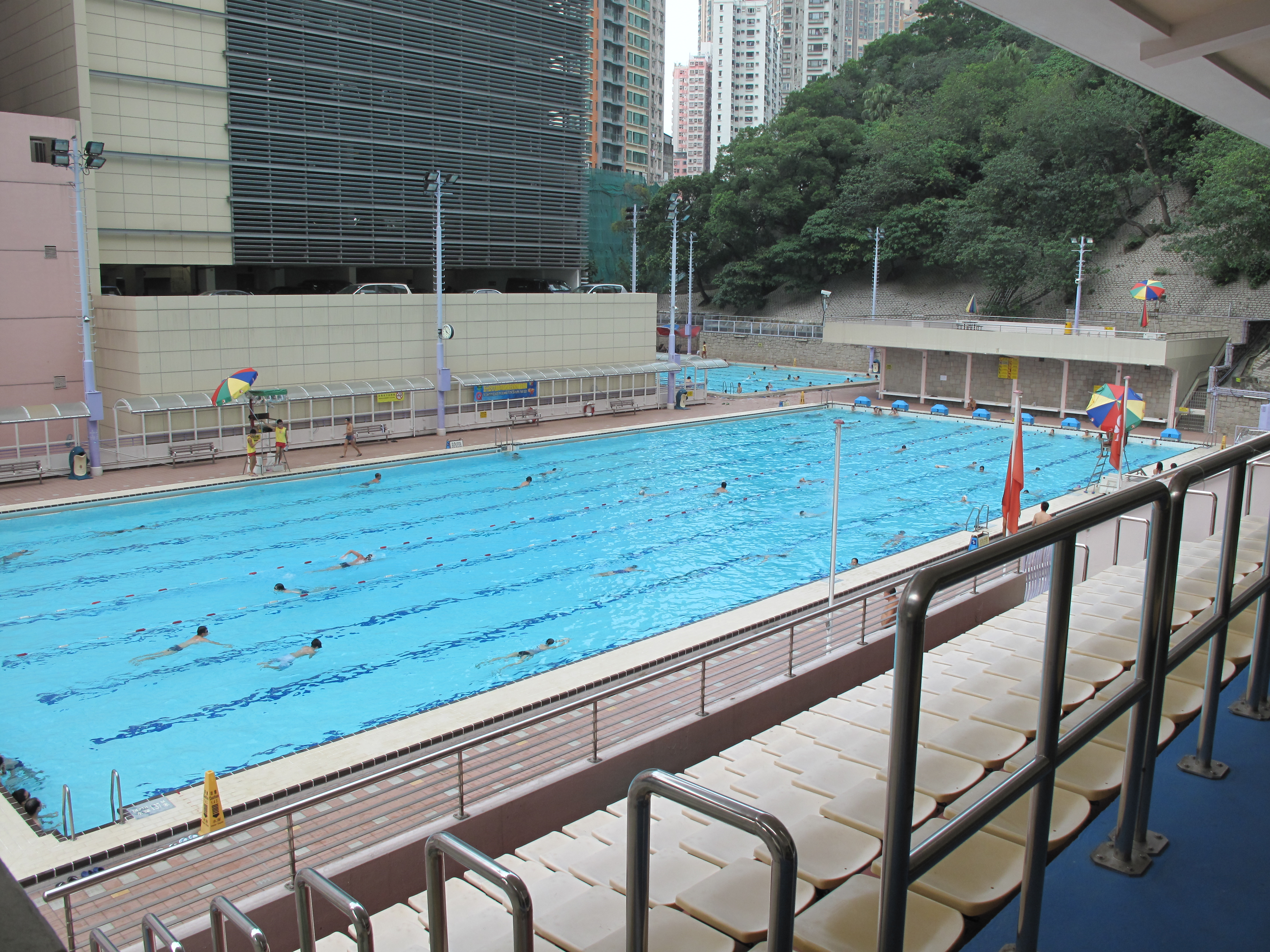 Photo of Kennedy Town Swimming Pool